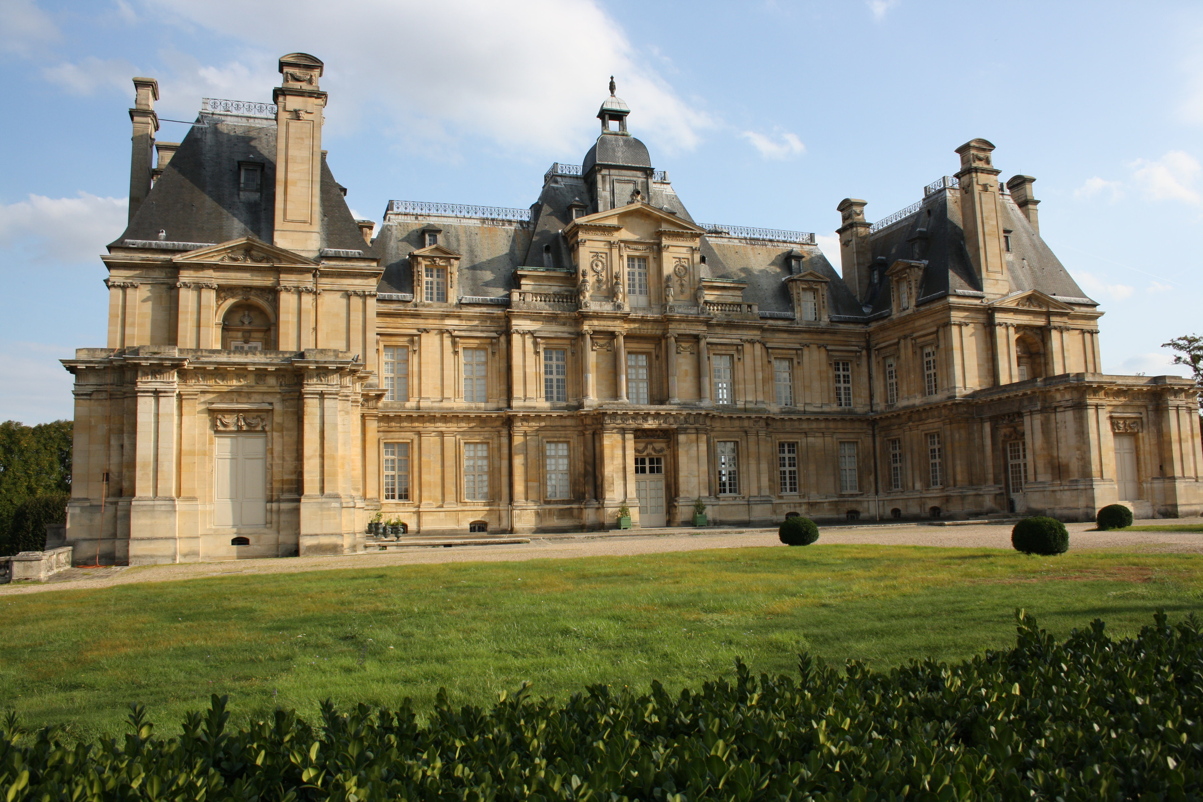 Maisons castle in Maisons-Laffitte, France.